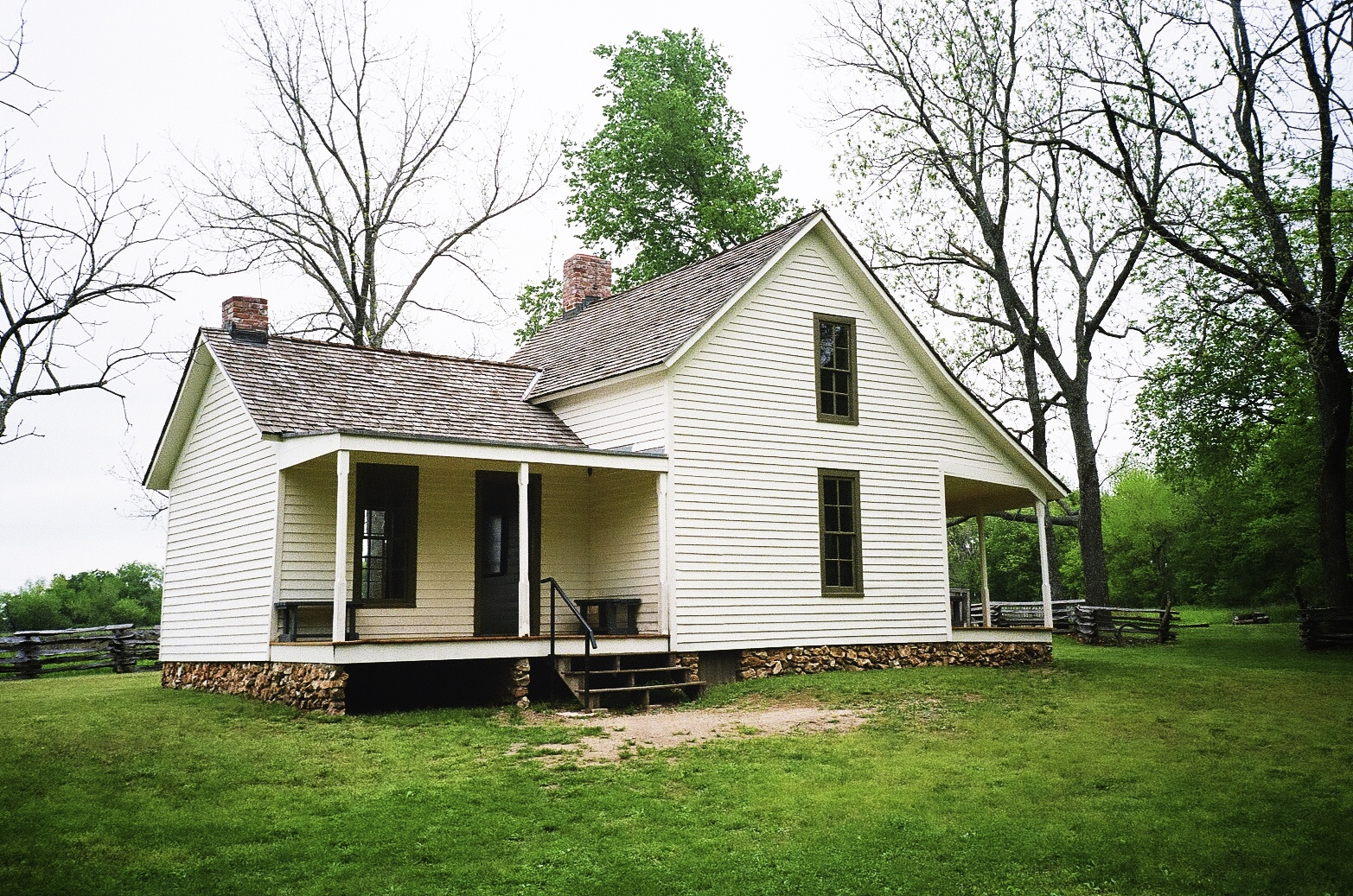 Moses Carver Farm, near where George Washington Carver spent his childhood, Diamond, Missouri